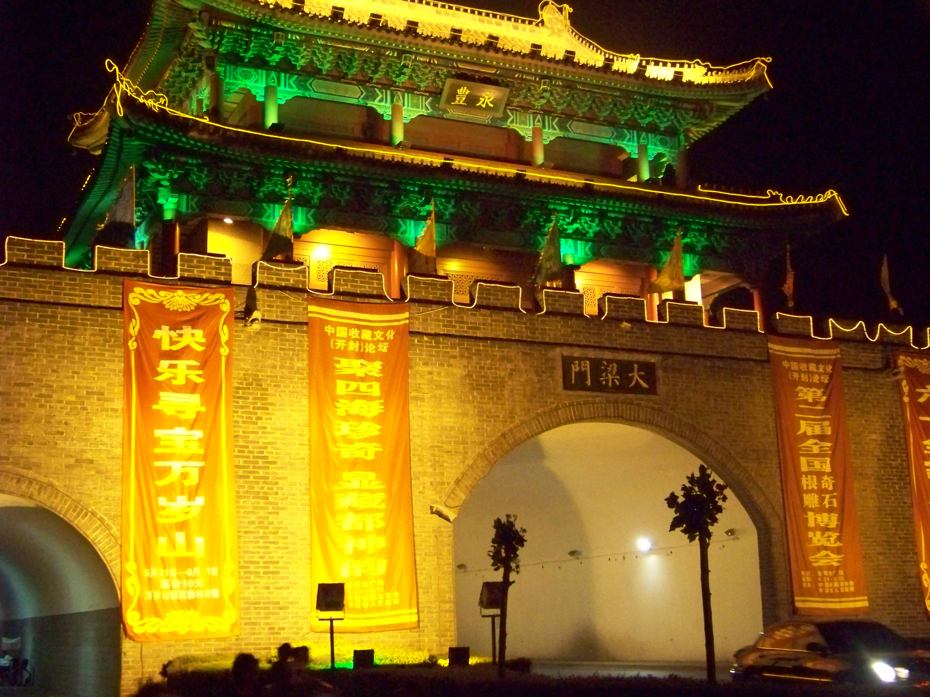 Bianjing inner city gate (reconstructed)